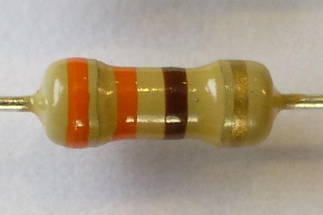 Resistor component